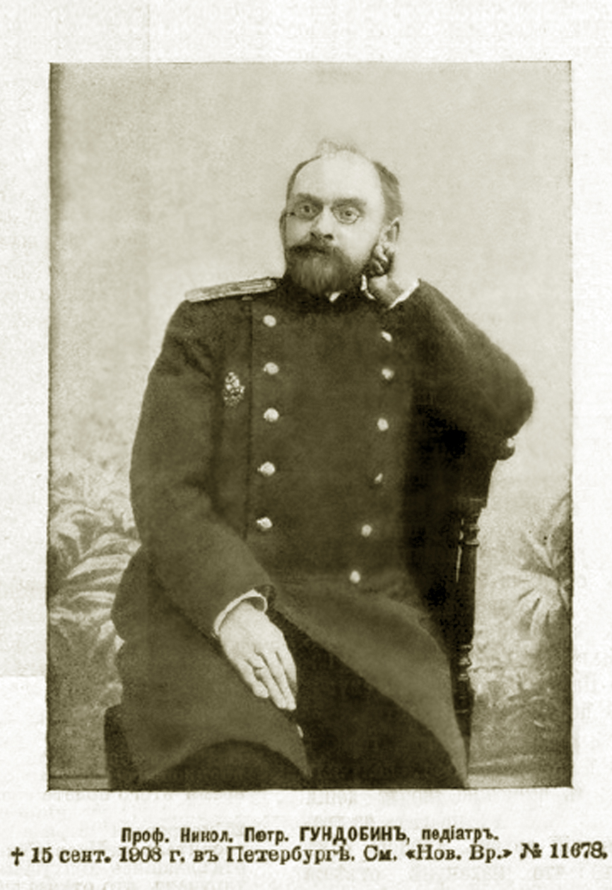 Gundobin Nikolay Petrovich professor of Pediatrics